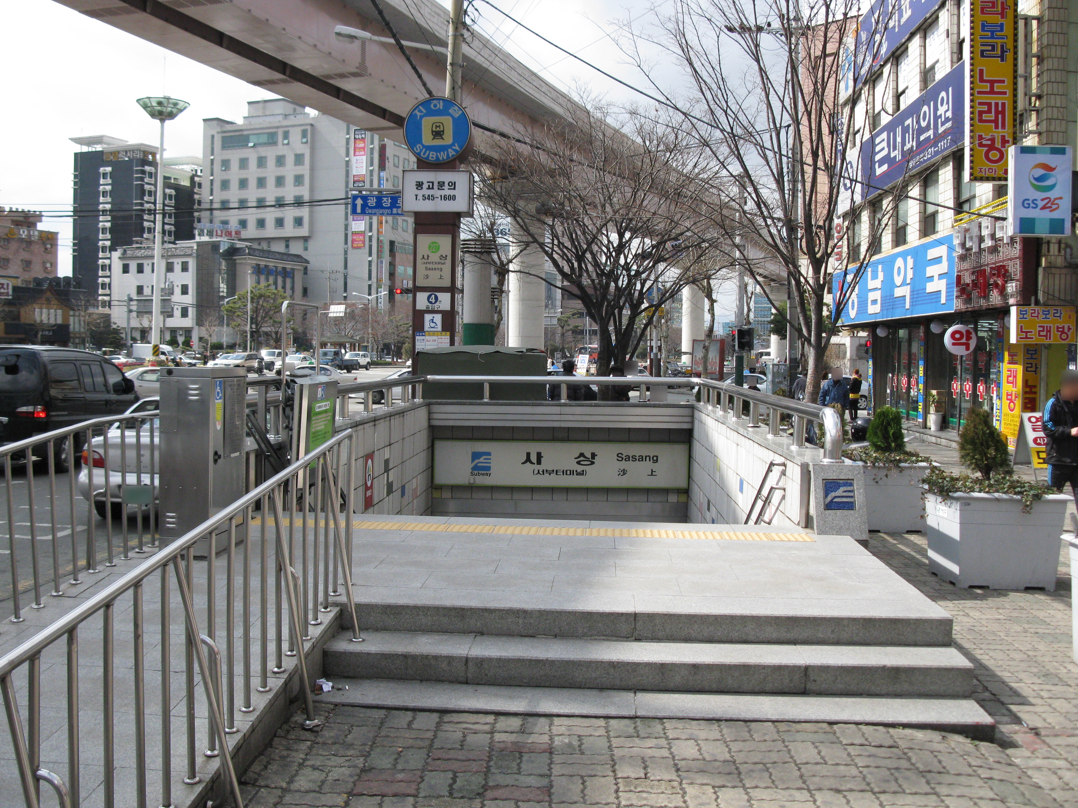 The no.4 entrance to Sasang Station on the Busan Subway Line 2 in Sasang-gu, Busan, Republic of Korea(South Korea)